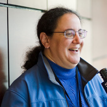 Find out more about VFS's annual Game Design Expo at To learn more about VFS’s one-year Game Design program, visit